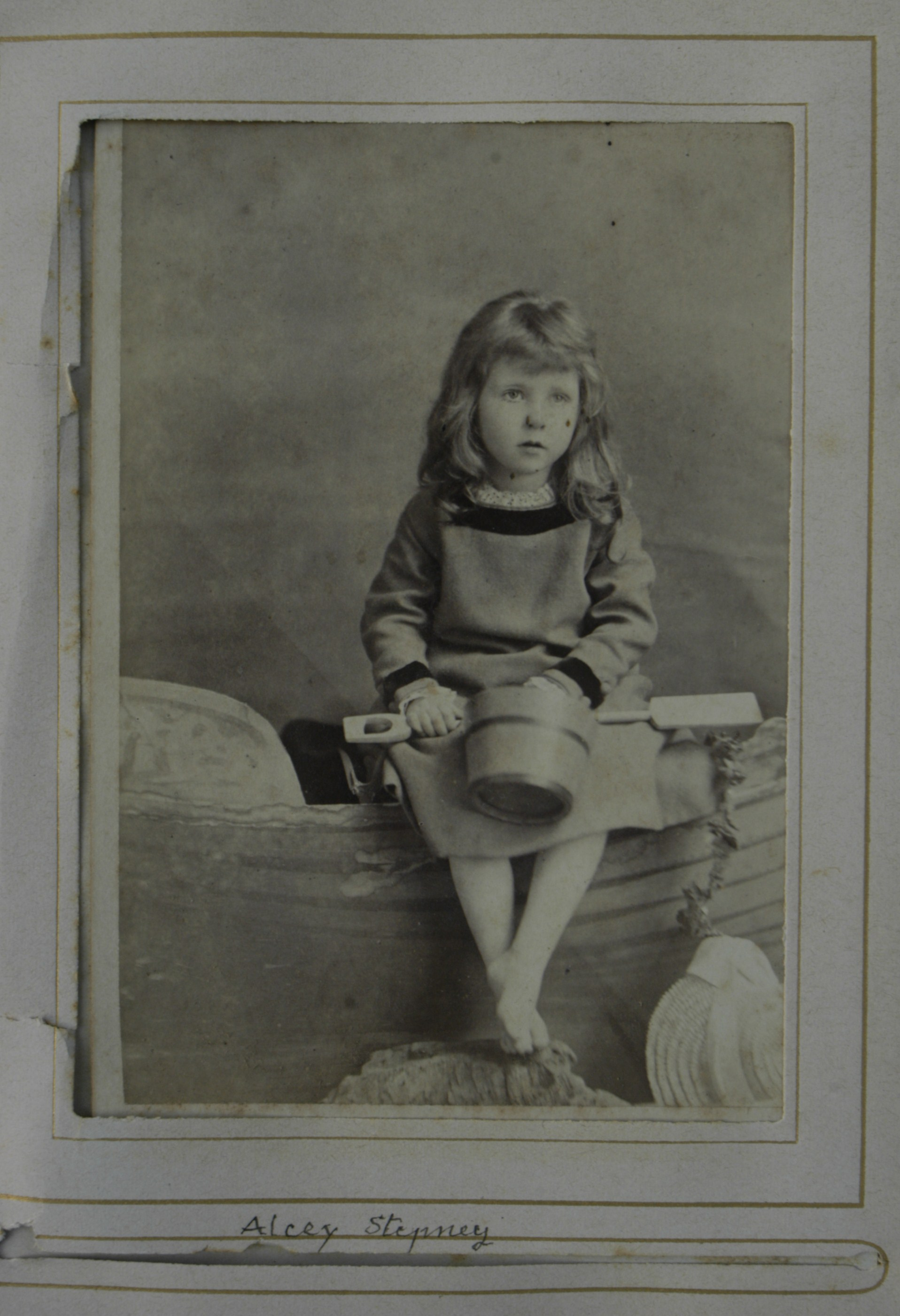 Heiress. Catherine Meriel Cowell-Stepney (Miss Alcyone Stepney) (1876–1952). She married Sir Stafford Howard in 1911. This photo of circa 1890 was made by The Cabinet Portrait, C. & R. Lavis, Eastbourne. Other information Catherine Meriel Cowell-Stepney (Miss Alcyone Stepney) (1876–1952), Eastbourne.